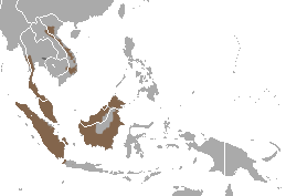 Sunda Flying Lemur (Galeopterus variegatus) range